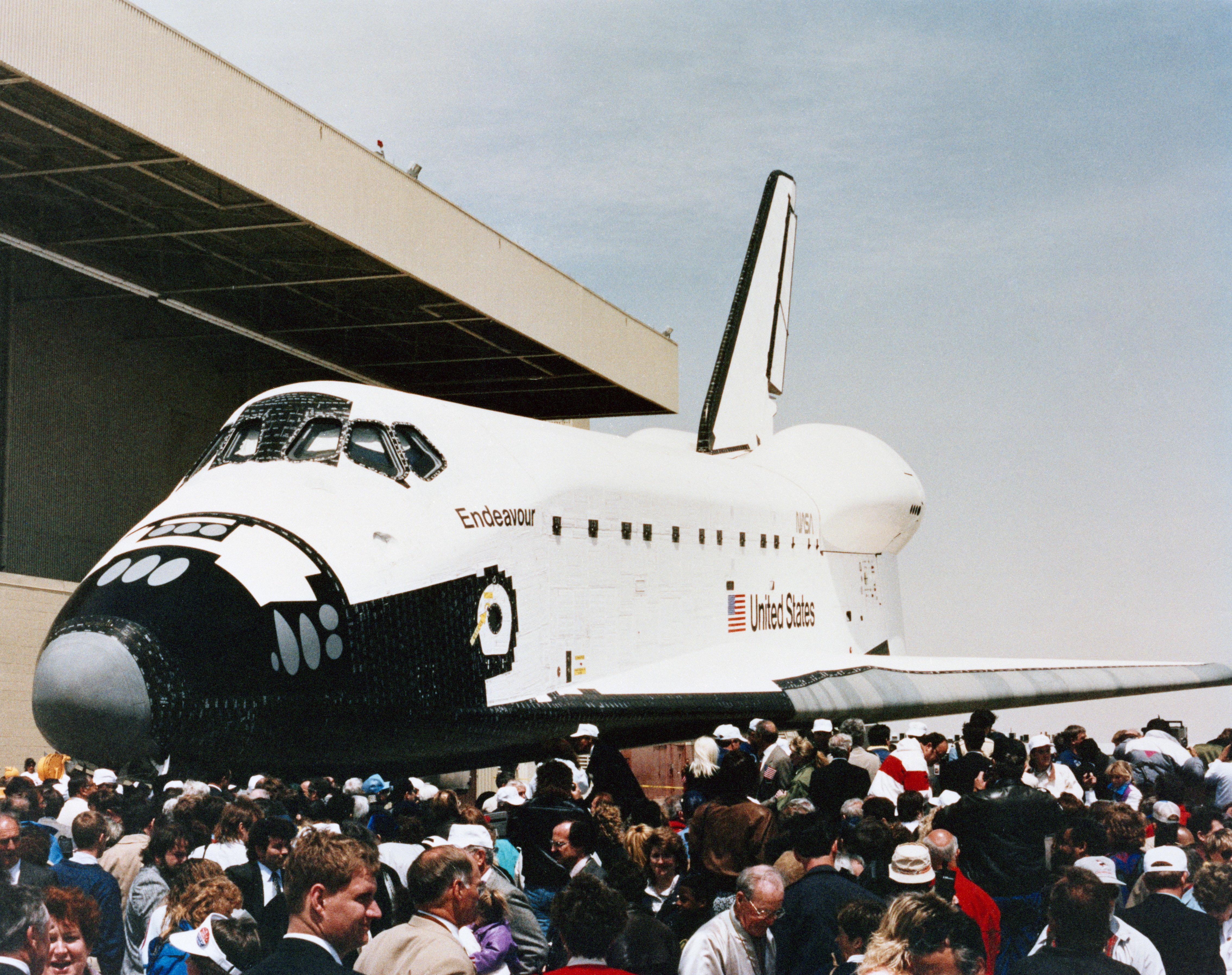 Endeavour, Orbiter Vehicle (OV) 105, rollout ceremony held at the Rockwell International (RI) Space Systems Facility in Palmdale, California. STS-49 crewmembers and NASA officials talk informally to spectators gathered for the ceremony. OV-105 towers over the crowd in the background. Image ID: S91-36157